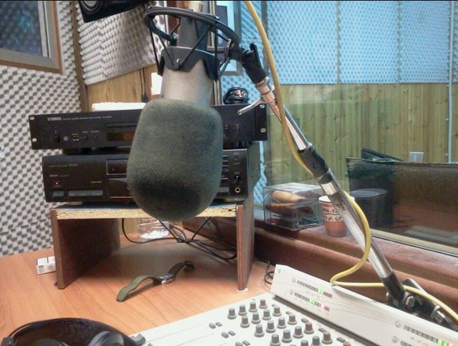 A shot of TRS Radio station indoor.